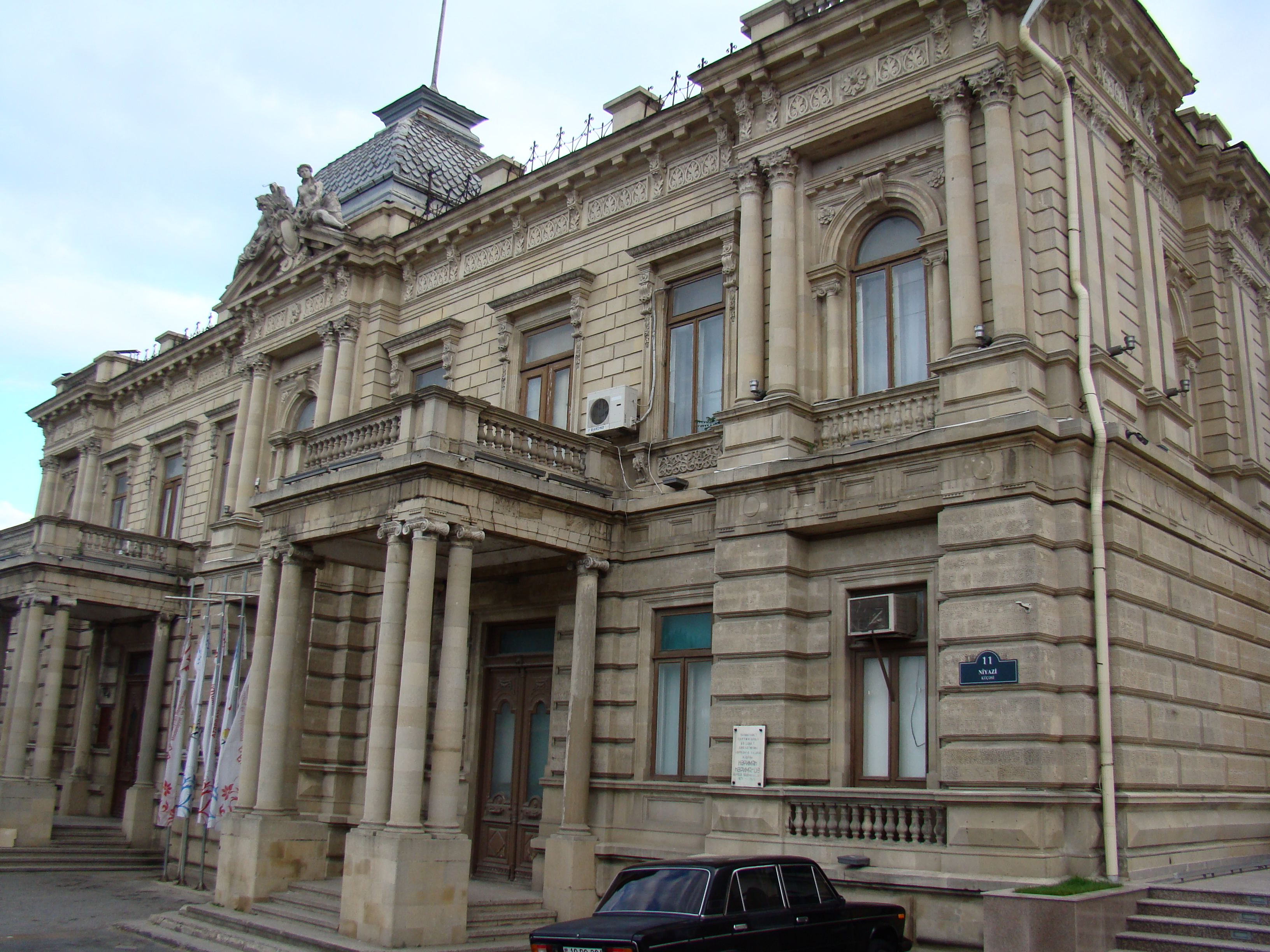 The building of Azerbaijan National Museum of Arts